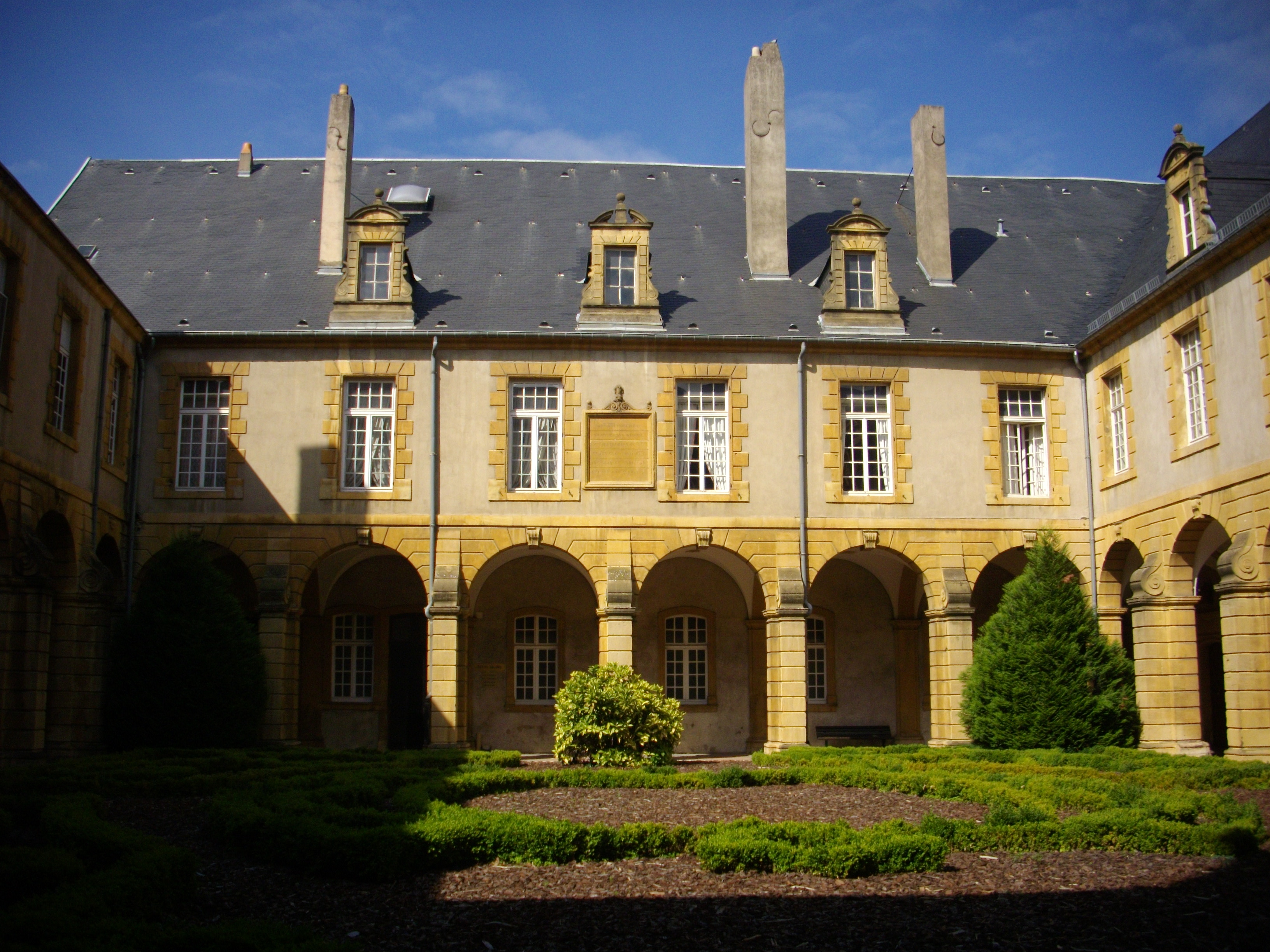 Cloister of Saint Arnould Abbey (present officers club) in Metz, France (european heritage days 2010)